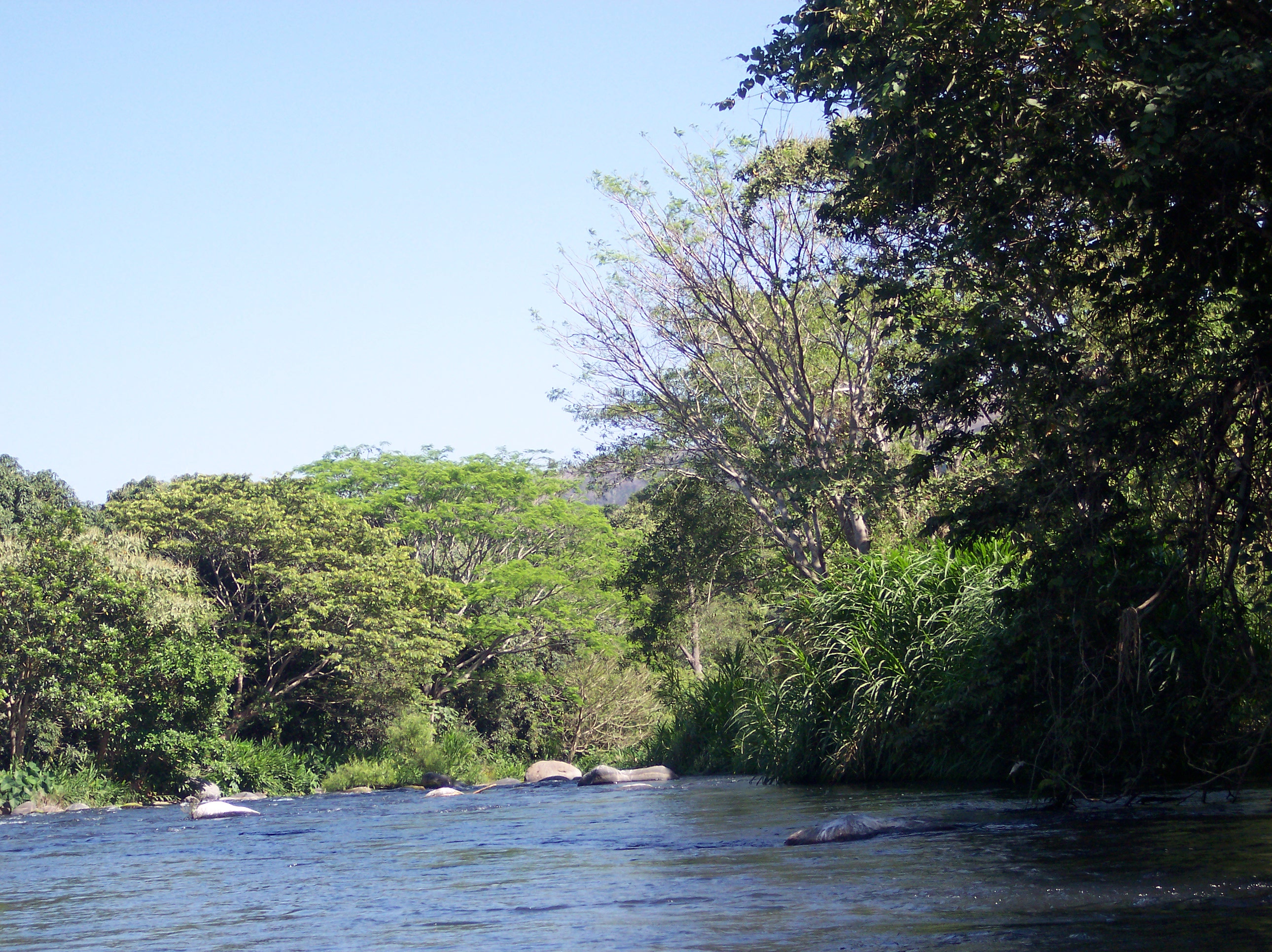 Quite water at the middle of the river between the river start at "De Descabezadero" and the Actopan Town. SPANISH: Remanso a la mitad del tramo Navegable del Río Actopan que va del Descabezadero a la población de Actopan. Municipality of Actopan, State of Veracruz, Mexico. SPANISH: Municipio de Actopan, Estado de Veracruz, Mexico.